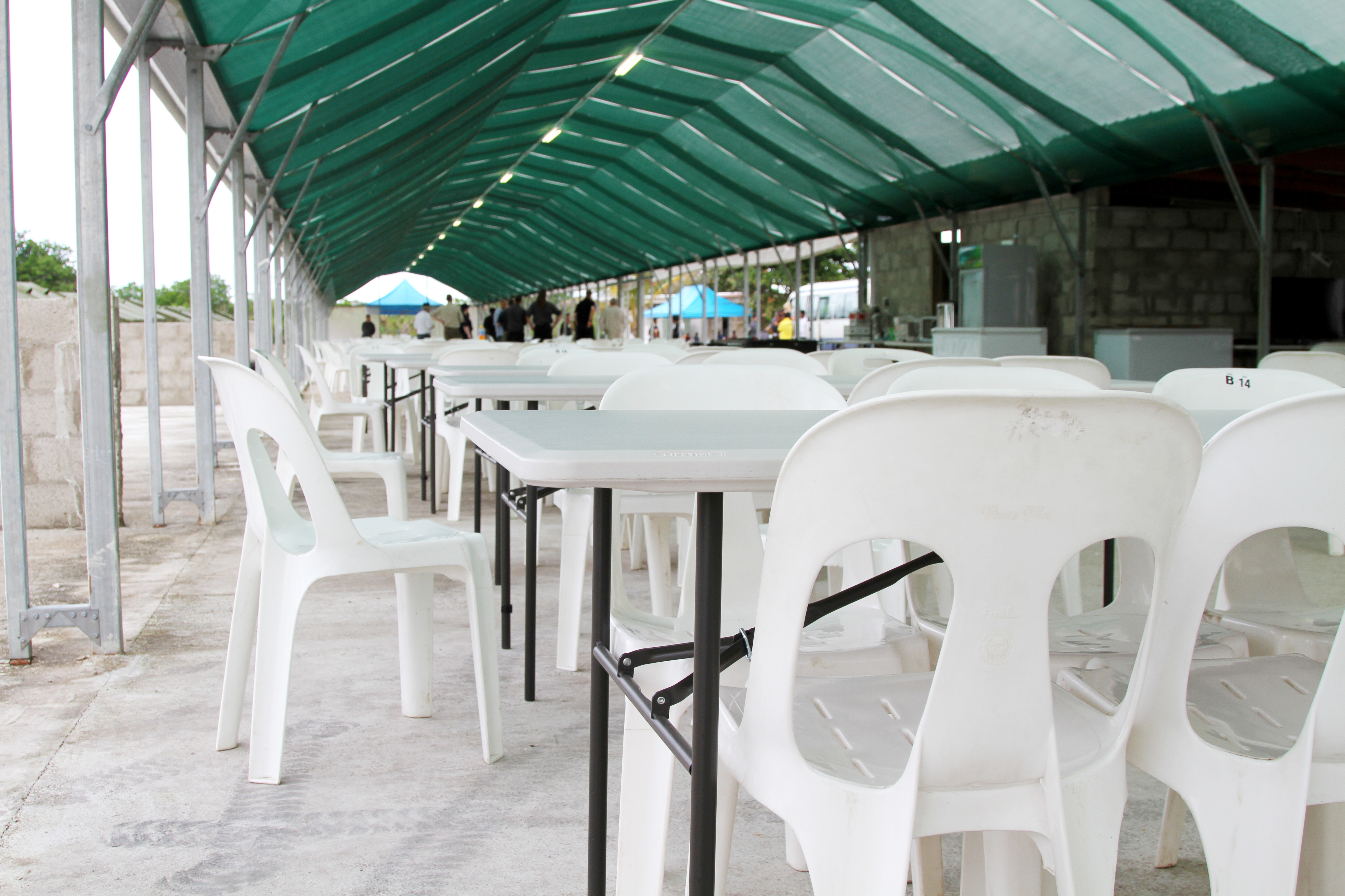 Nauru regional processing facility